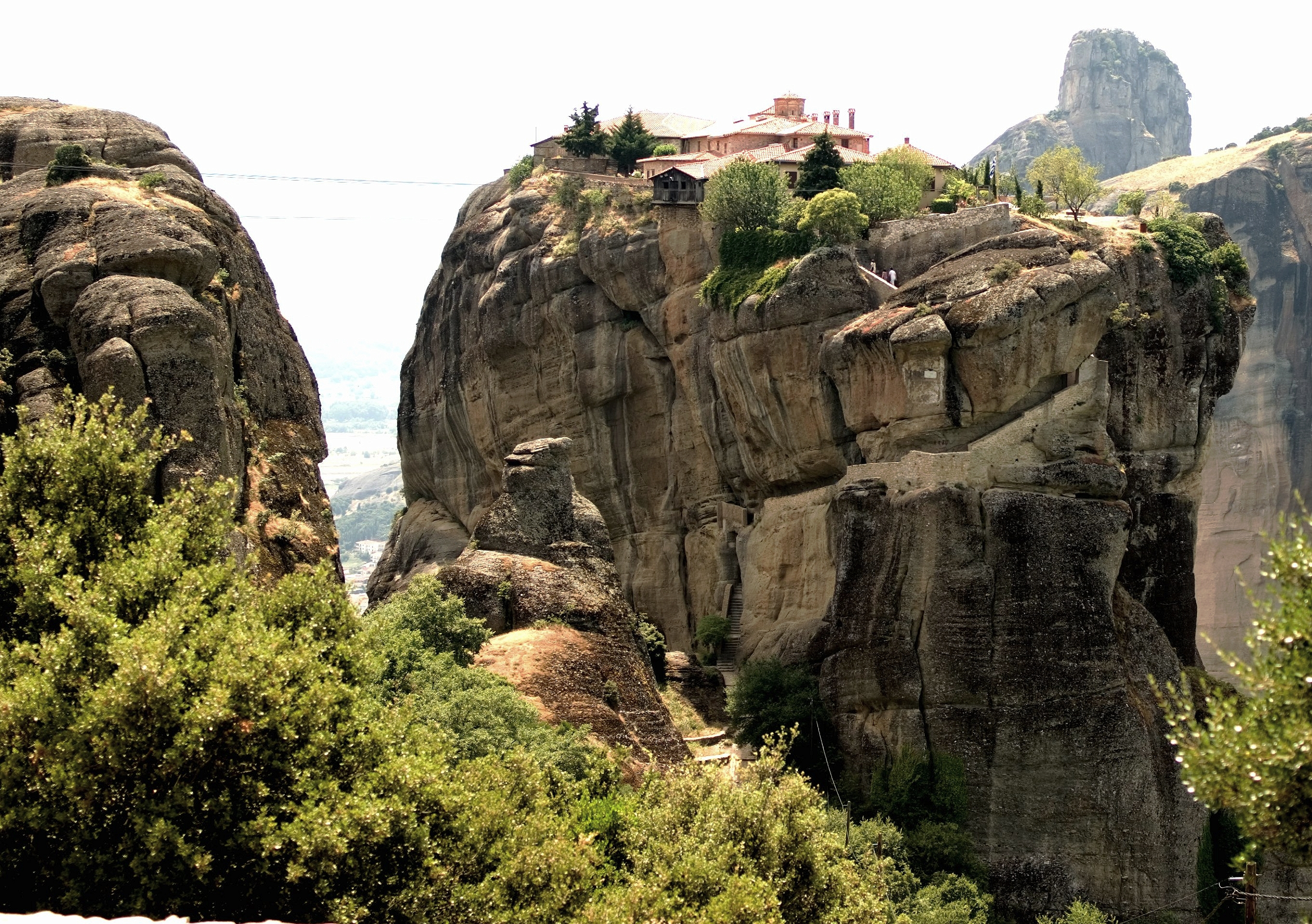 Agios Triada, Meteora, Greece